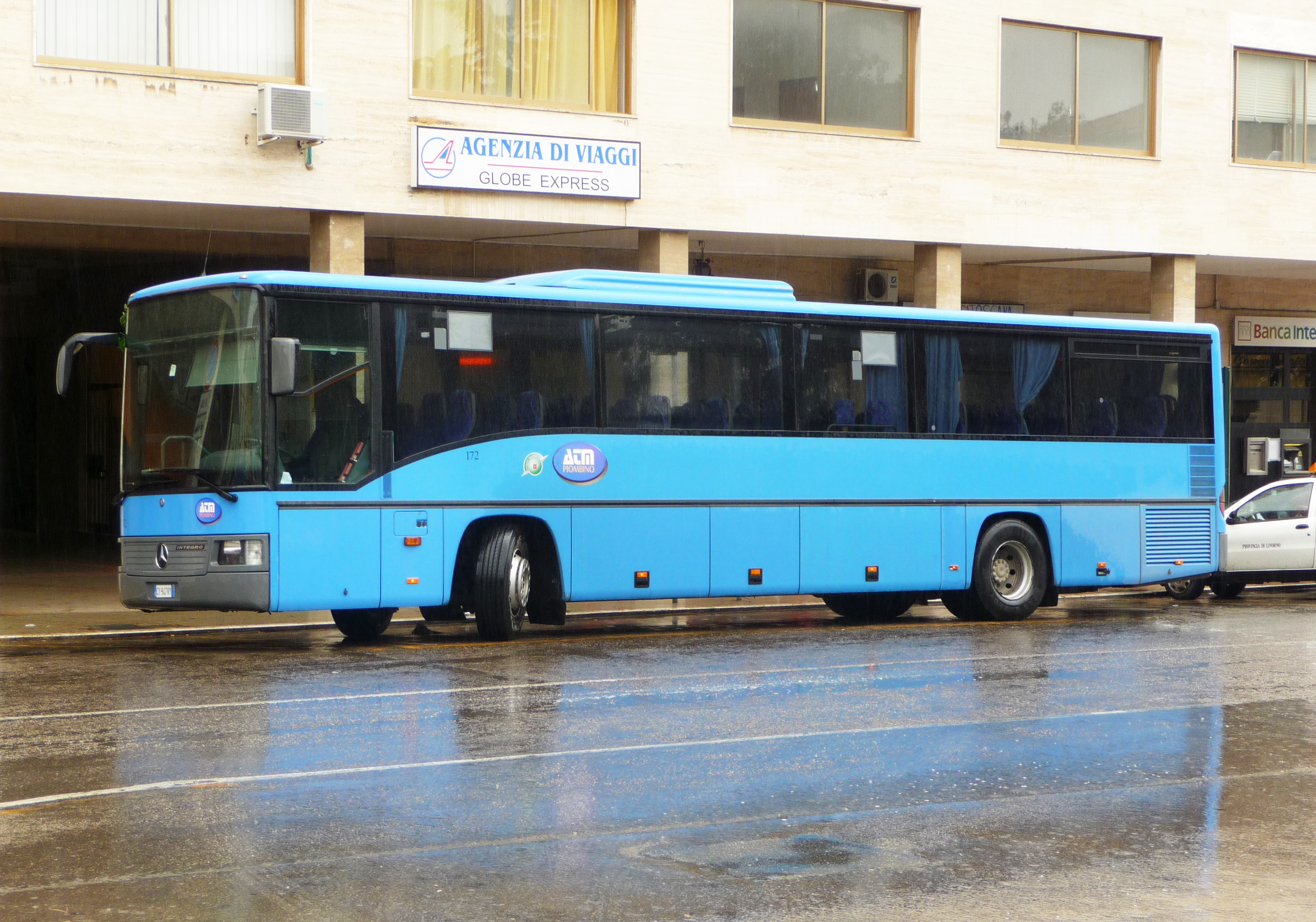 Mercedes-Benz bus, Cecina, Italy - Public transport company ATM (Piombino)